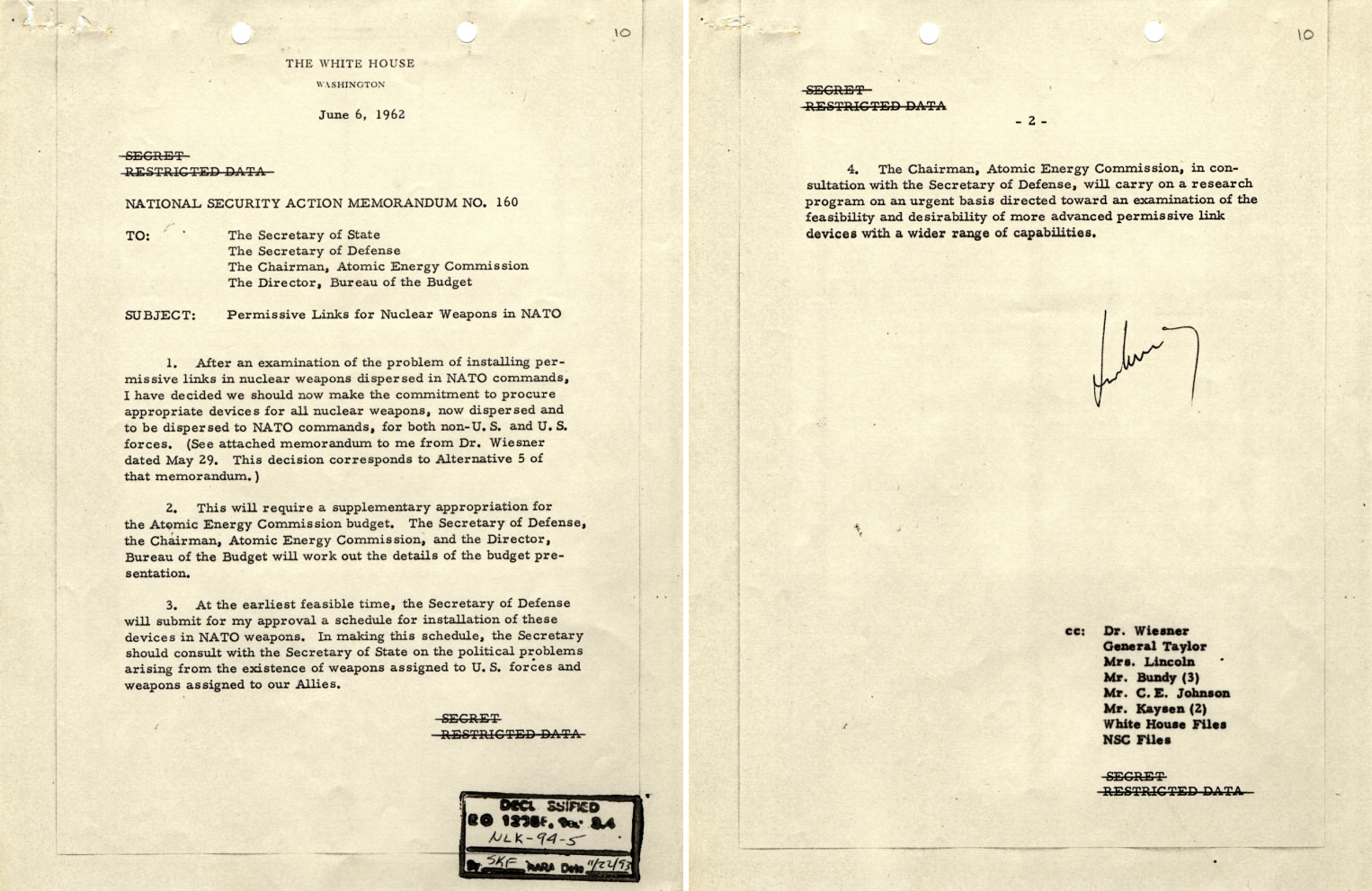 In June 1962 Kennedy signed National Security Action Memorandum 160 mandating the use of PALs on U.S. nuclear weapons in Europe.